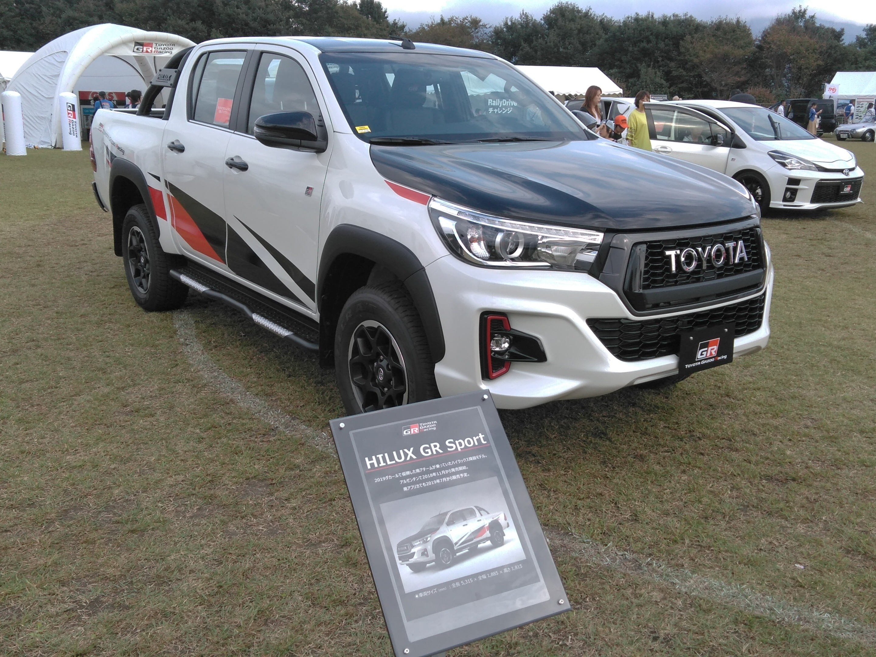 TOYOTA GAZOO Racingラリーチャレンジで展示されていたトヨタ・ハイラックス GR SPORT